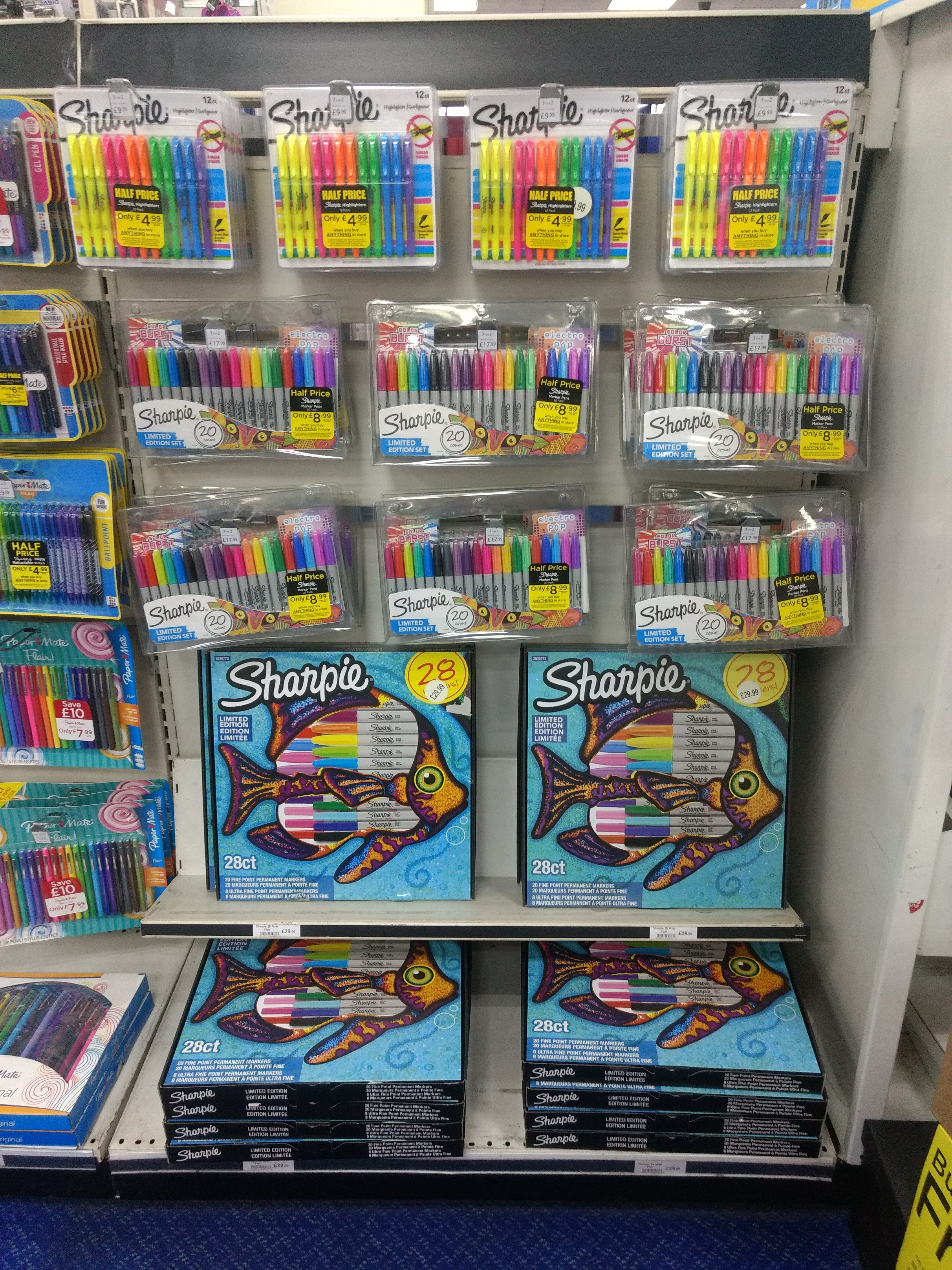 Books at W.H. Smith, Enfield, London.